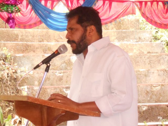 Raju Abraham, ranni MLA